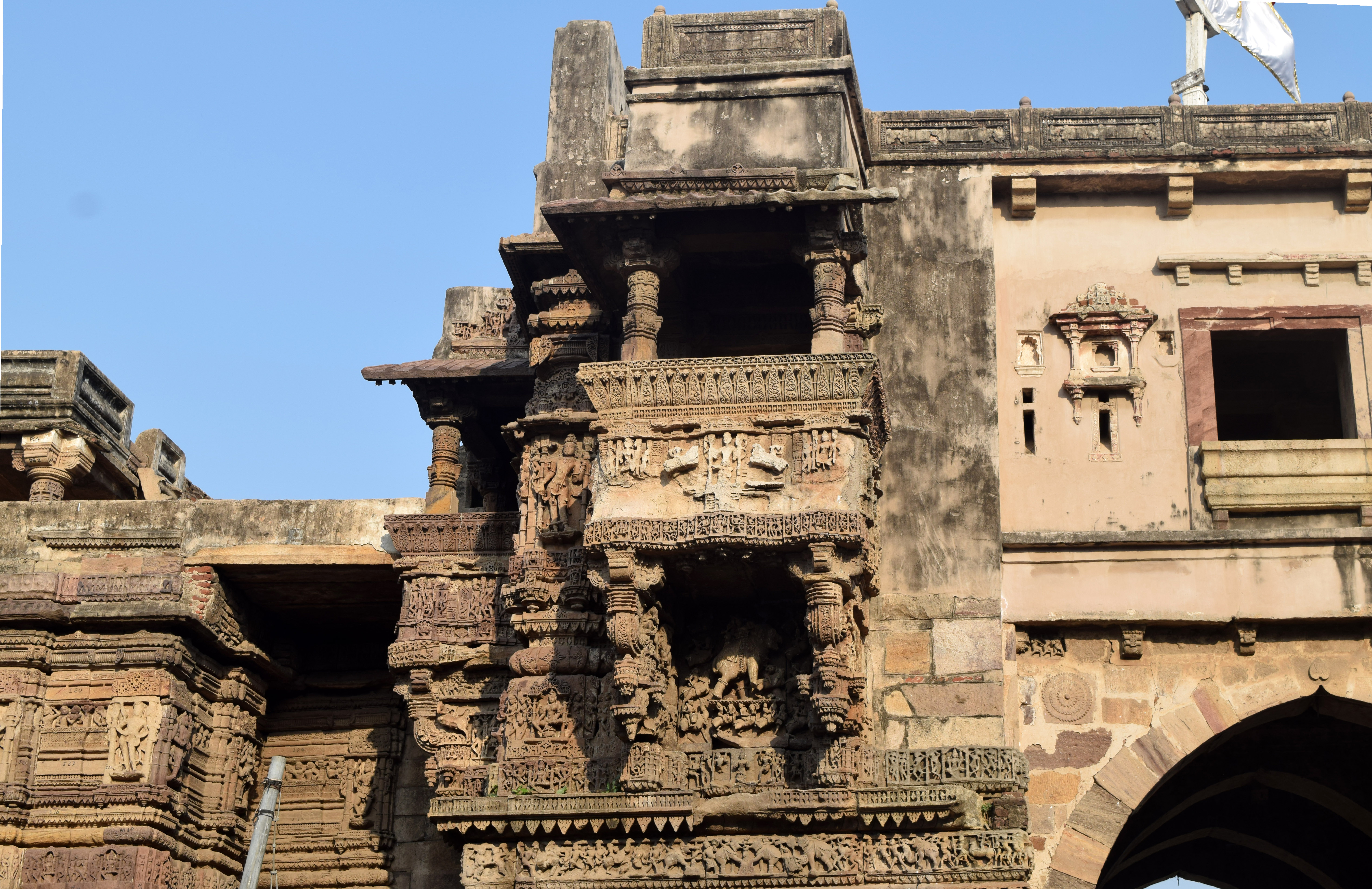 Hira Gate, or literally the 'Diamond Gate' is one of the four gates erstwhile walled city of Dabhoi. The origin of the name is unknown, however, it is quite apt since, this gate is heavily ornamented.